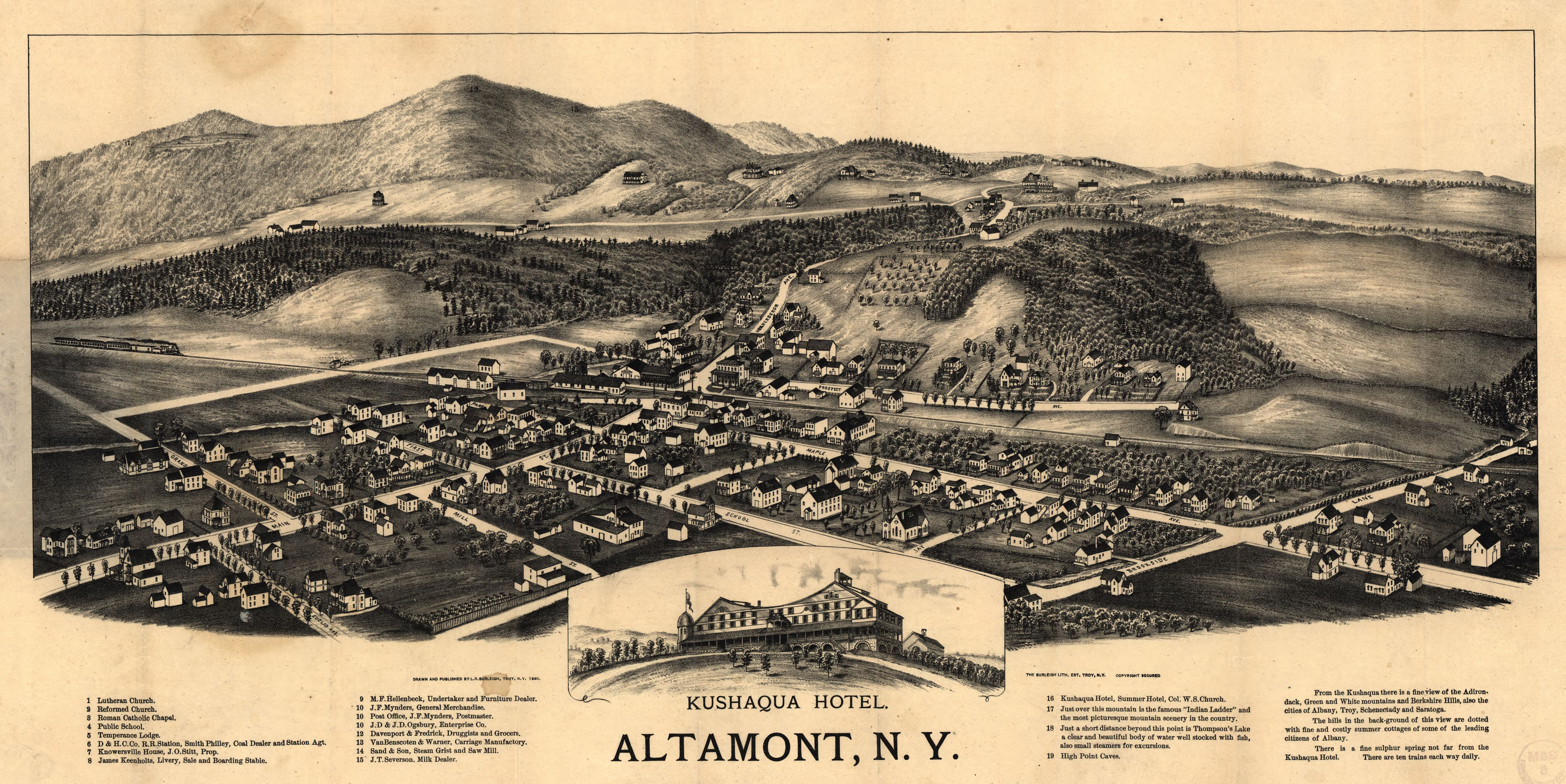 Bird's-eye view. Includes text, index to points of interest, and ill. of "Kushaqua Hotel". Available also through the Library of Congress Web site as a raster image. Acquisitions control no.: 99-79 PM3